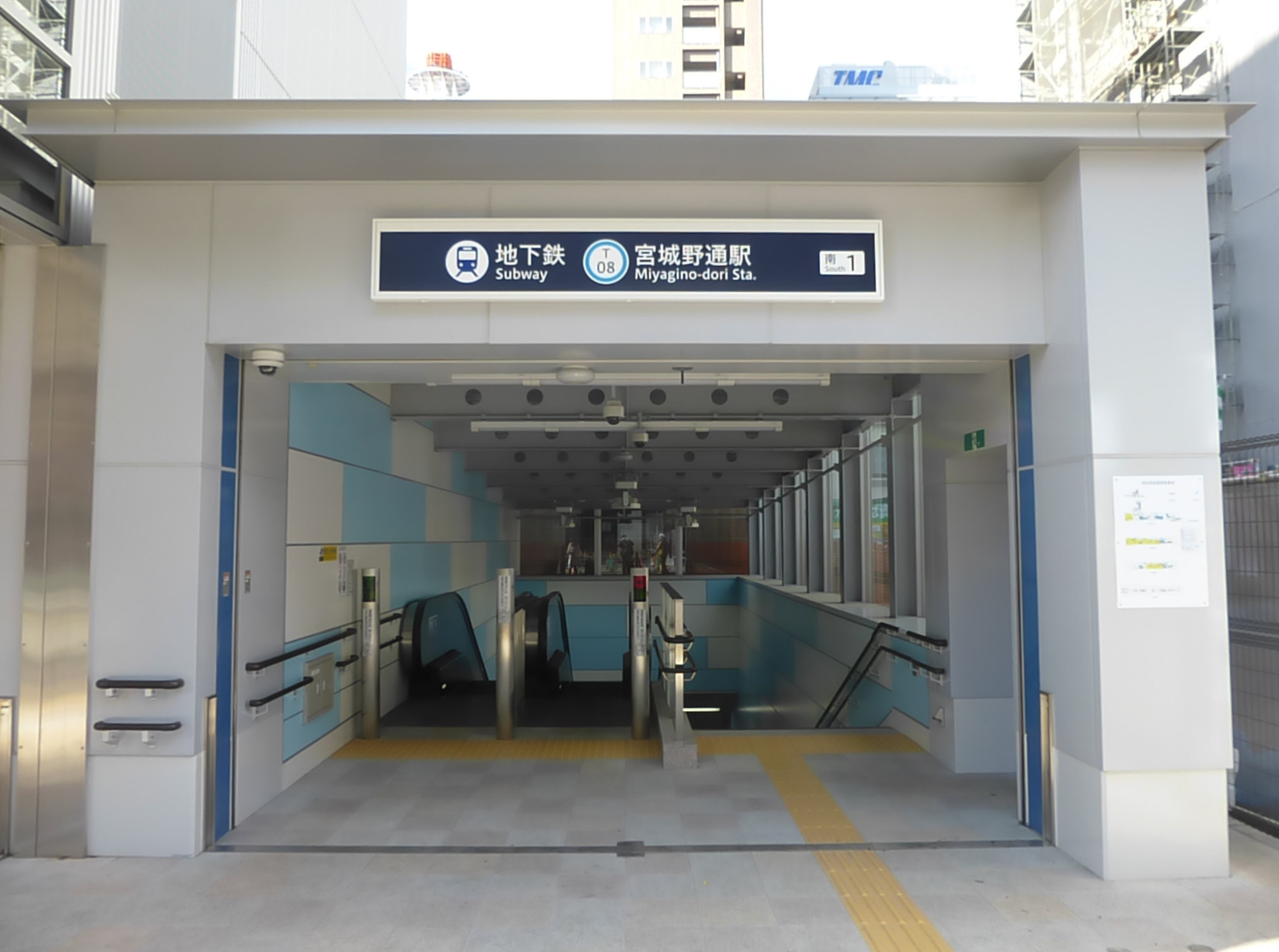 The "South 1" entrance to Miyagino-dori Station on the Sendai Subway Tozai Line in Sendai, Japan